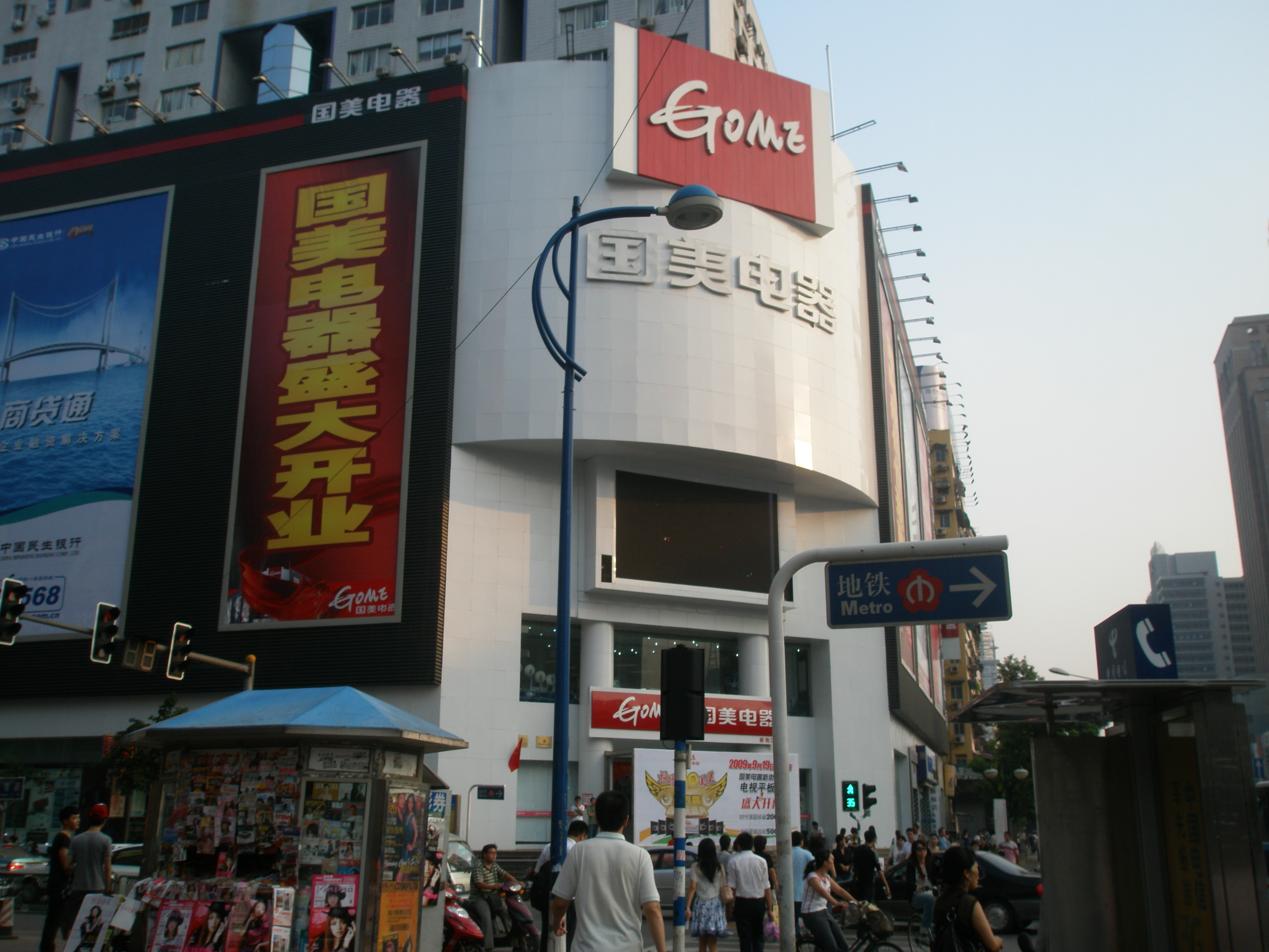 GOME Electrical，Xinjiekou Branch，Nanjing.